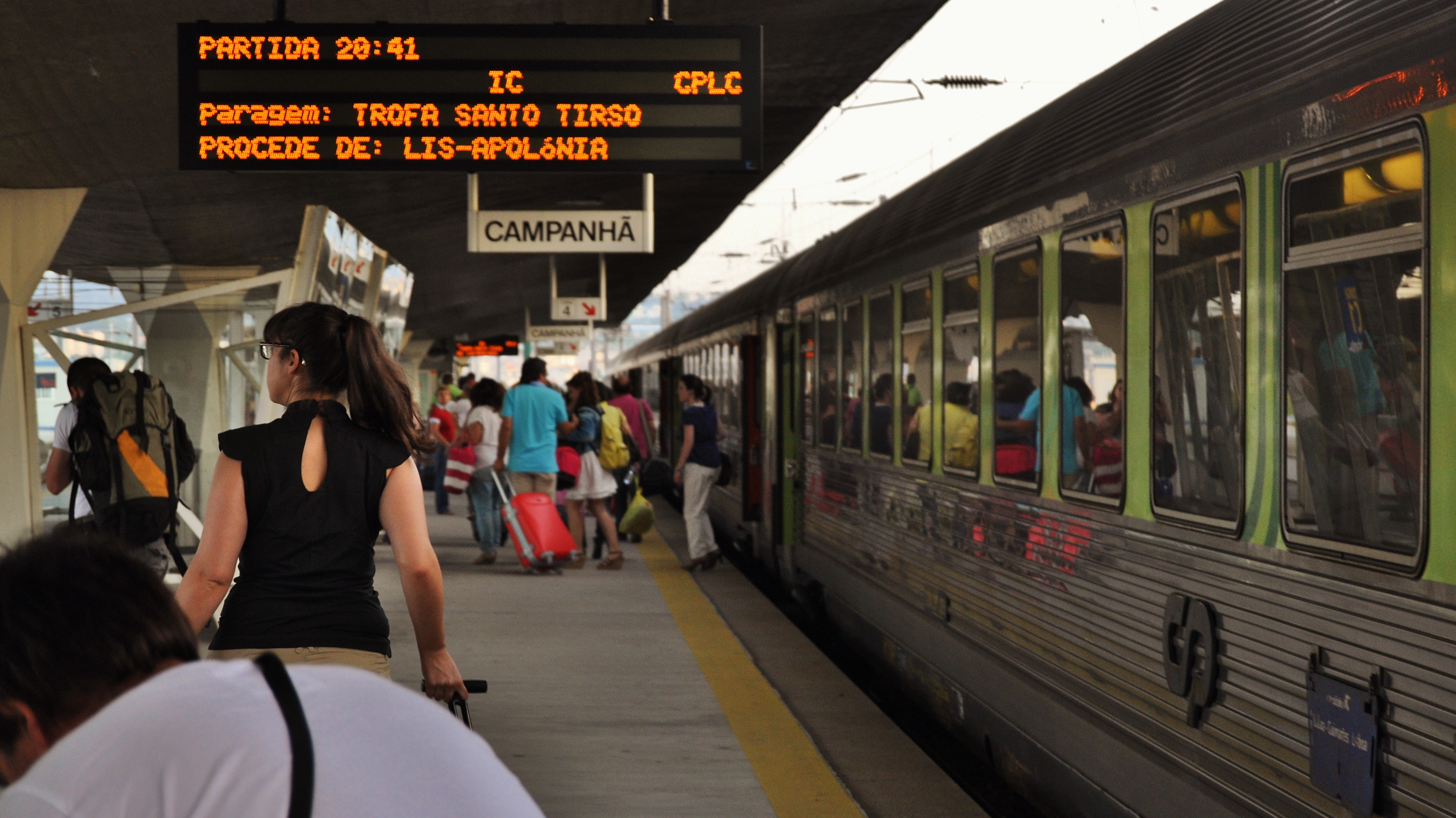 Portuguese Intercidades (InterCity) parked at Porto Campanhã